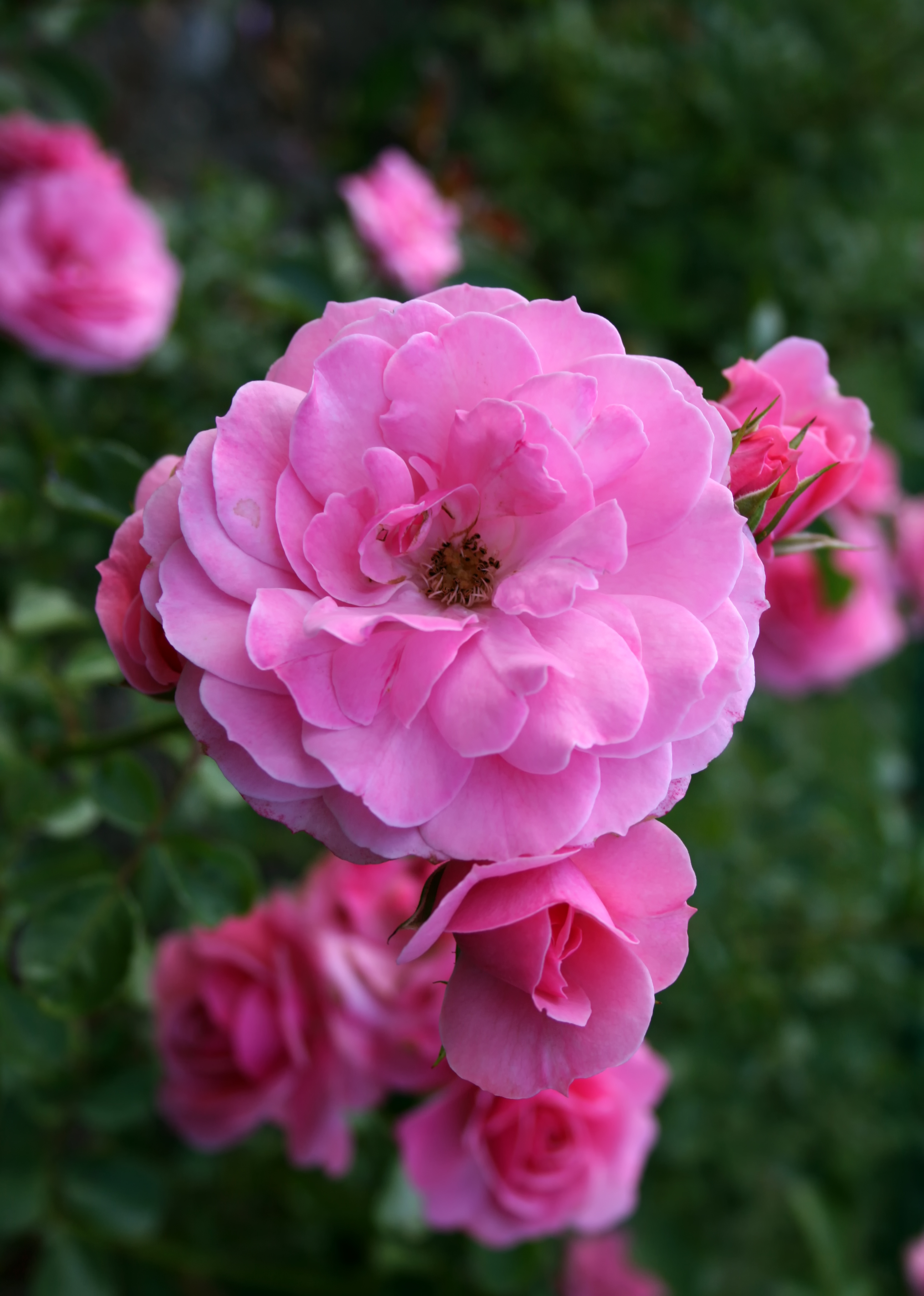 'Royal Bonica' a cultivar of shrub rose.